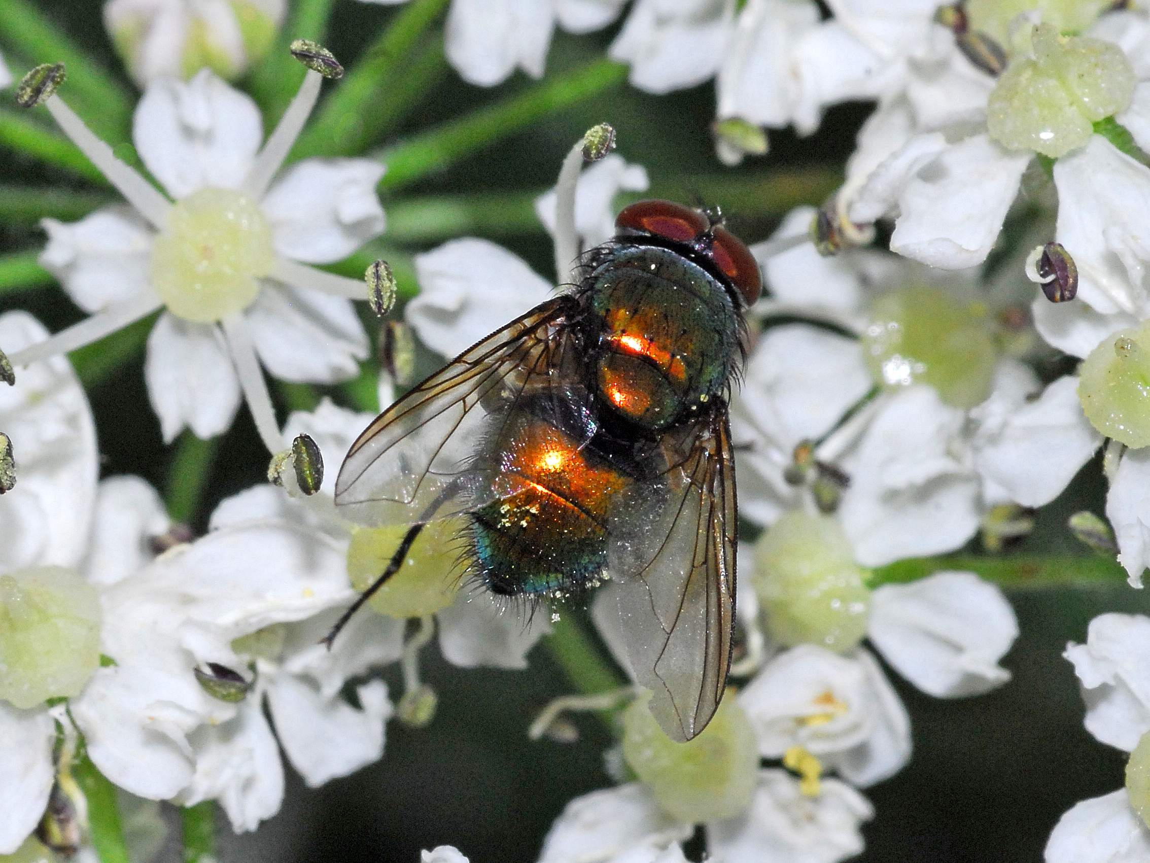 Lucilia cf. illustris. Soucheres Basses, Turin, Italy